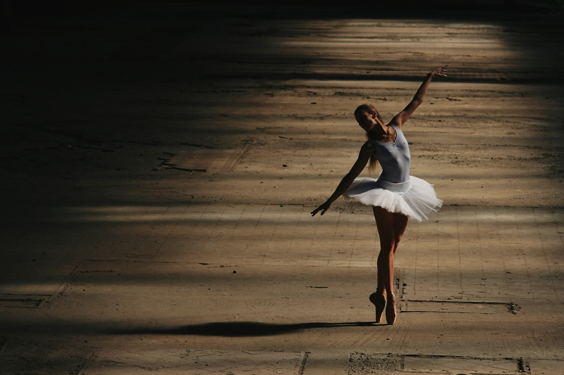 Tamara Černá Personality rights warningAlthough this work is freely licensed or in the public domain, the person(s) shown may have rights that legally restrict certain re-uses unless those depicted consent to such uses. In these cases, a model release or other evidence of consent could protect you from infringement claims.